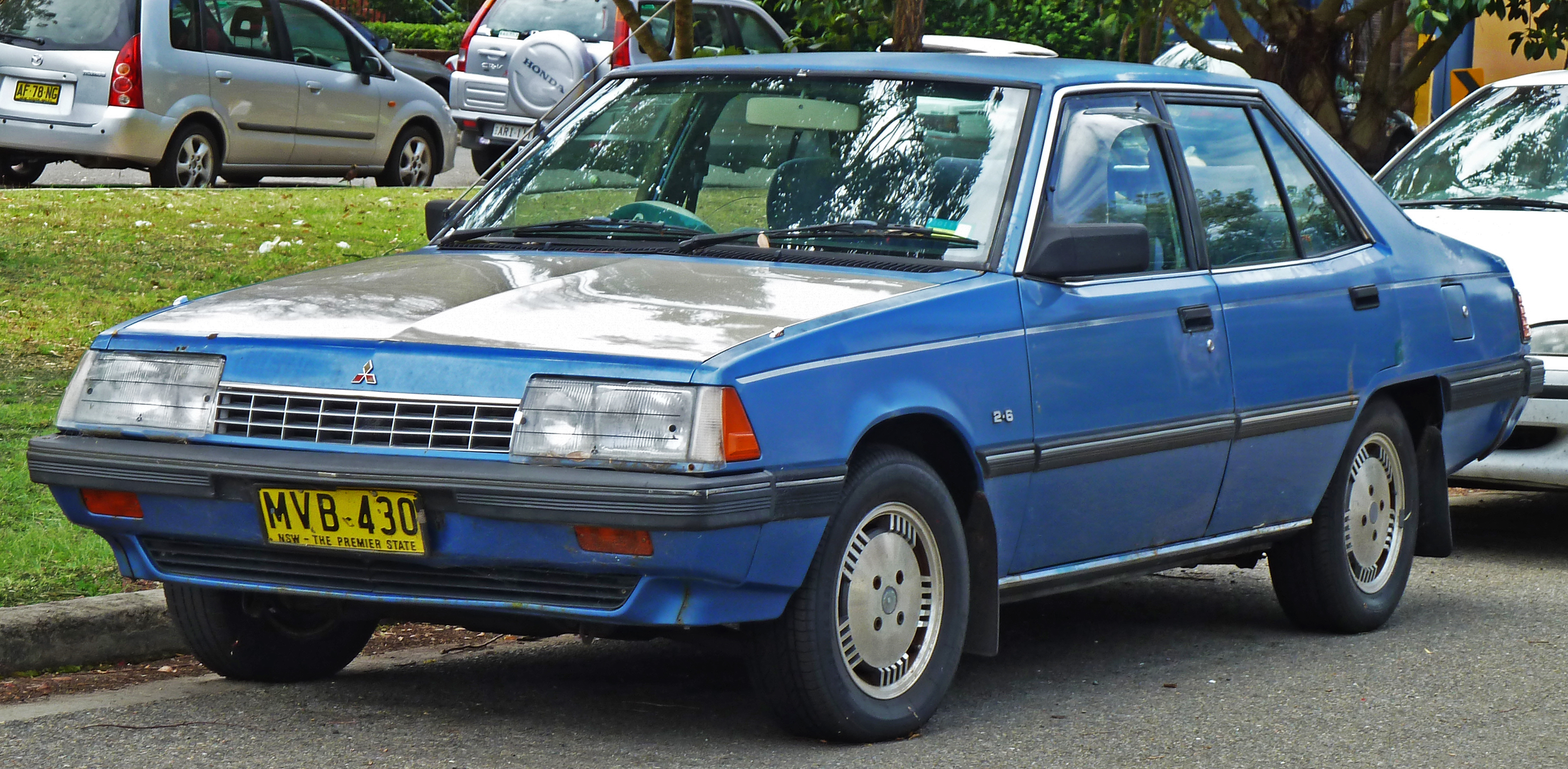 1984 Mitsubishi Sigma (GK) SE sedan. Photographed in Sans Souci, New South Wales, Australia.